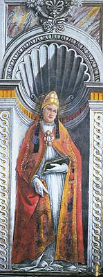 Pope Evaristus I, the fith pope.